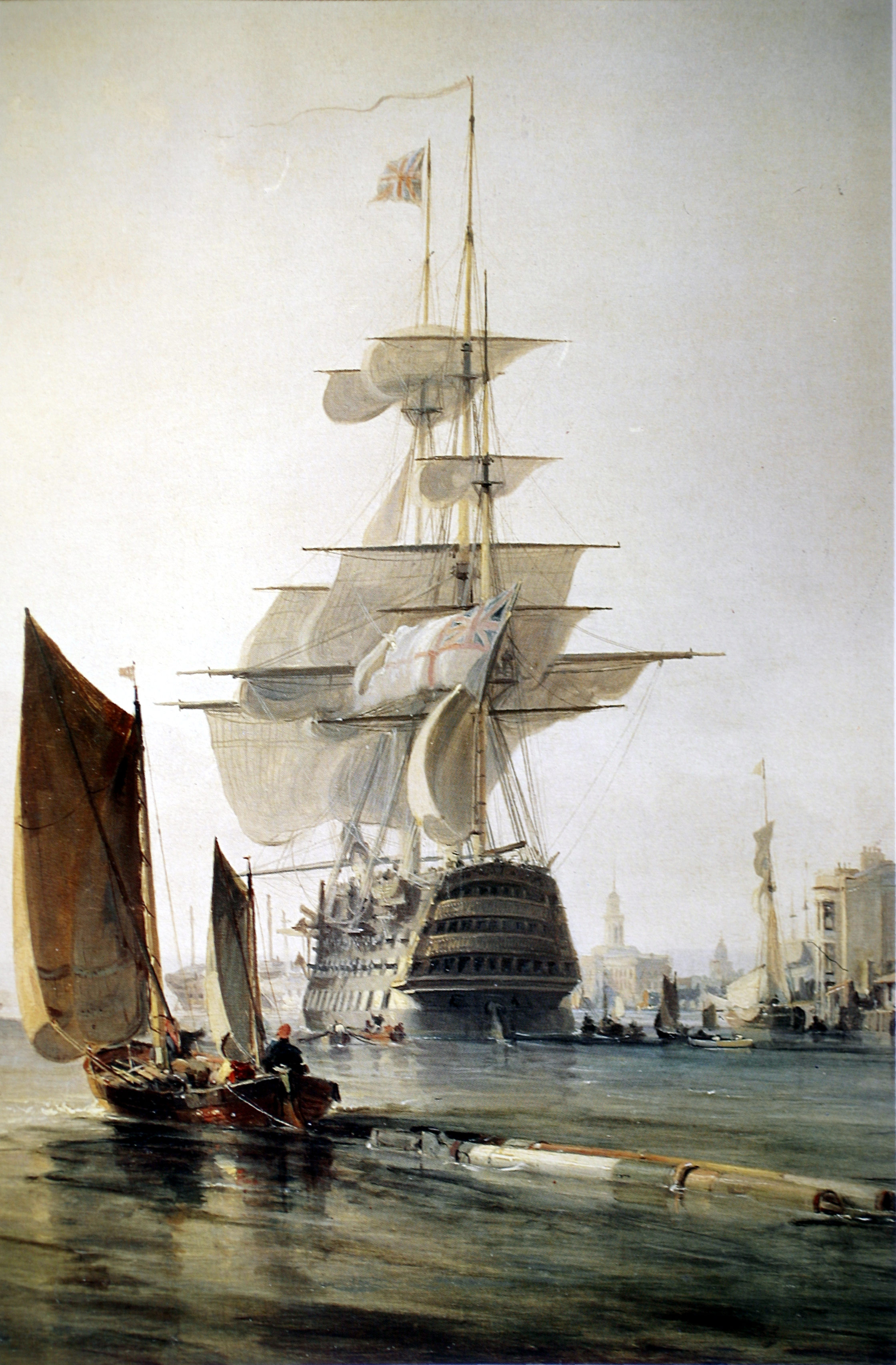 HMS Britannia entering Portsmouth (detail)